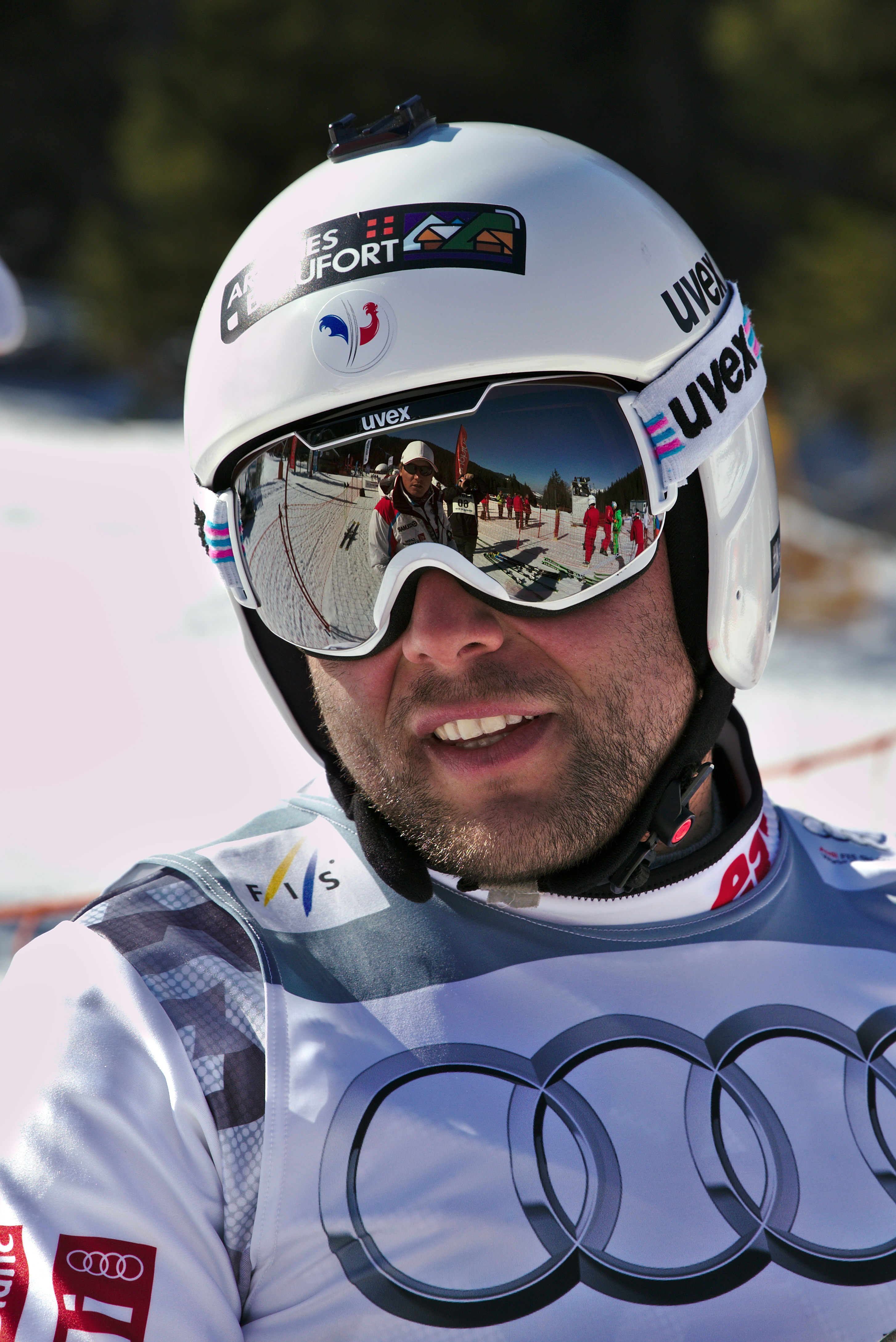 FIS Ski Cross World Cup 2015 - Megève - 20150313 - Arnaud Bovolenta